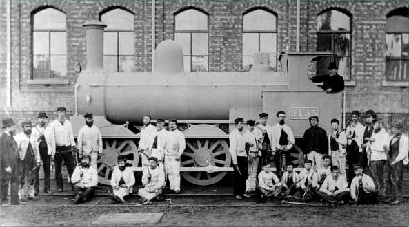 London and North Western Railway 17in Coal Engine number 1140 (Works number 2153) pictured at Crewe. This locomotive was constructed from raw materials in a record breaking 25 1/2 hours in February 1878. Its designer Francis Webb is pictured at the far left.